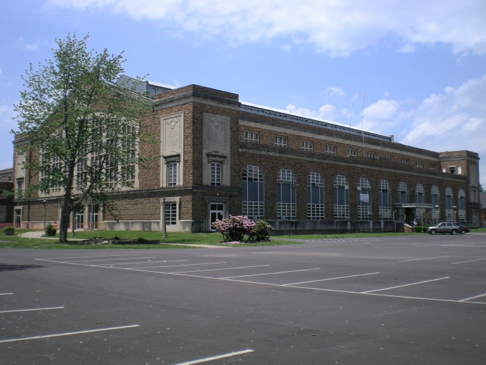 Kingston Armory prior to restoration project in 2009